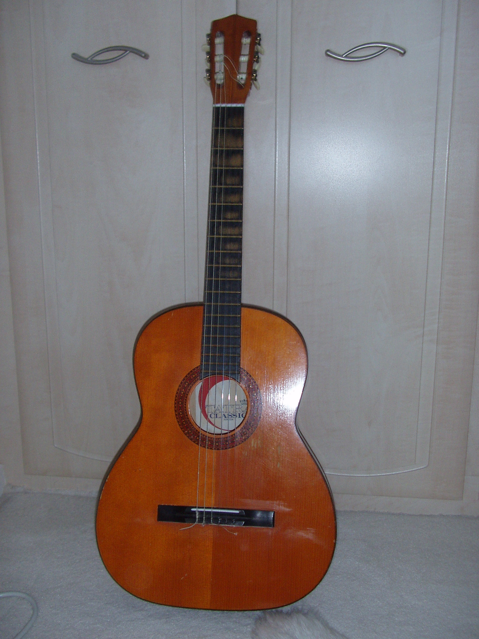 Spanish classical acoustic guitar